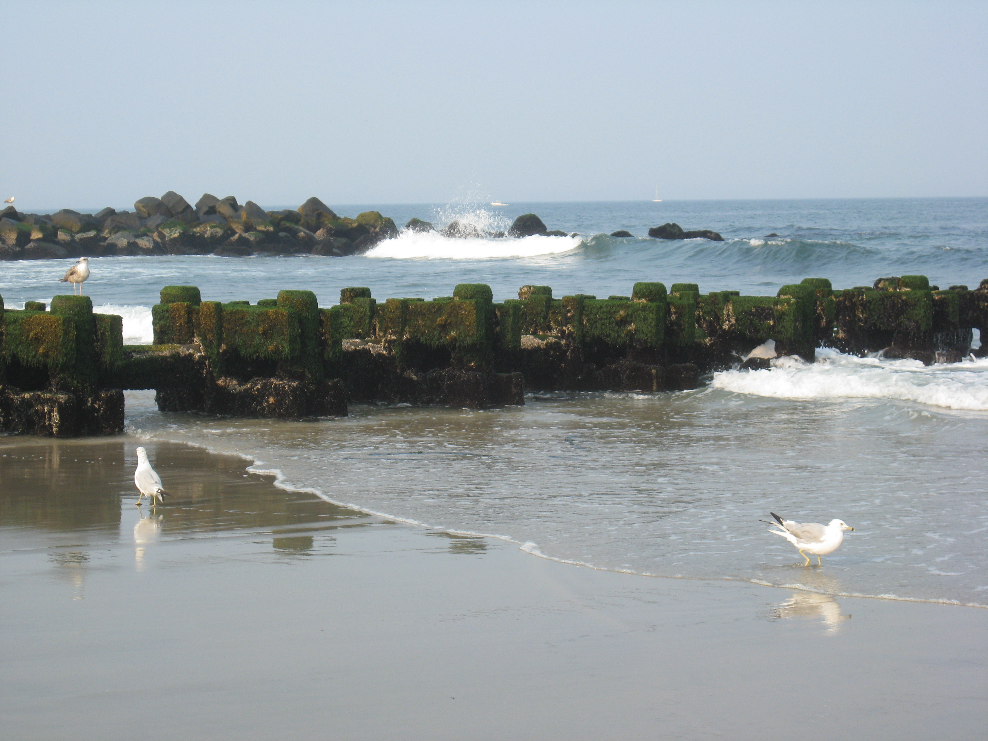 A group of seagulls move around a mossy pier on the beach in Spring Lake that empties into the Atlantic Ocean.